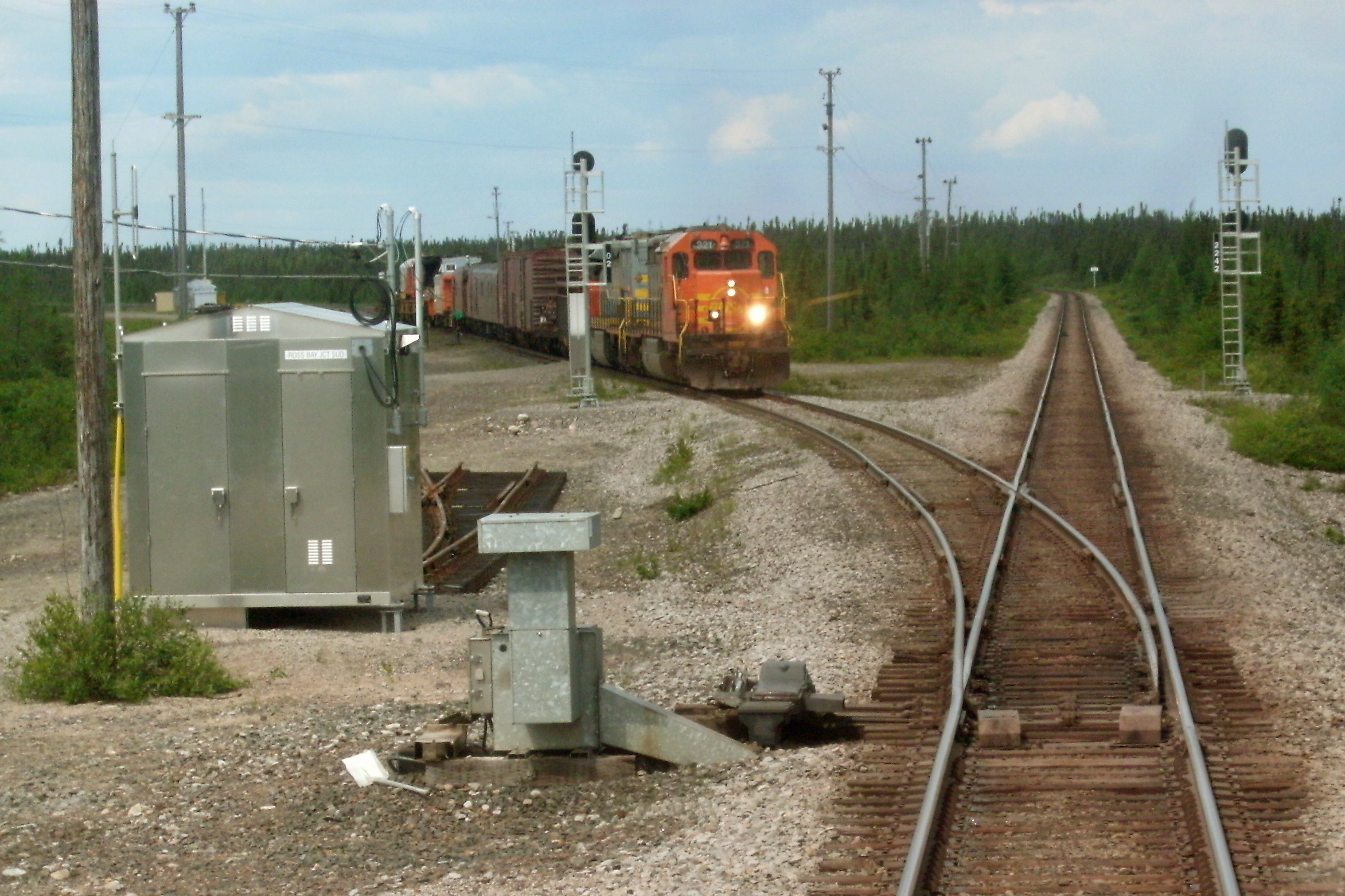 Taken through the rear door of the southbound passenger train (from Schefferville to Sept Iles), we see a short freight train emerging from the branch line waiting to join the mainline.